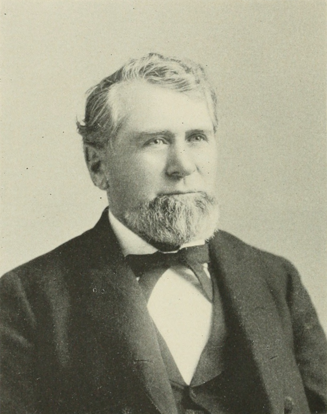 Senator Knute Nelson